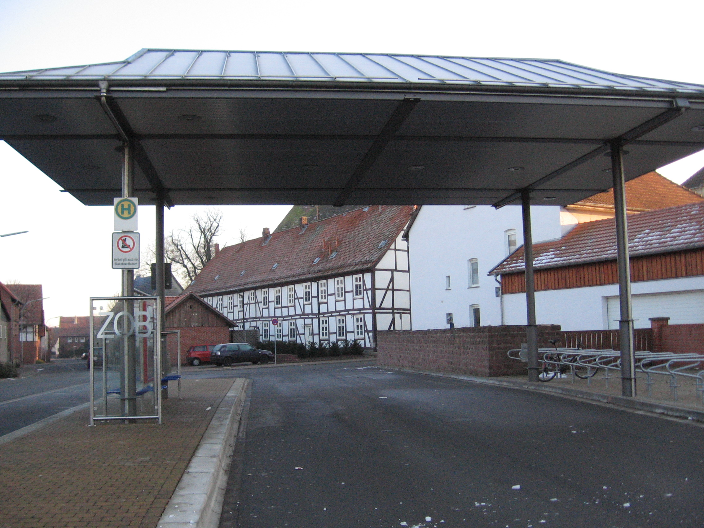 Bus station in Borgentreich, Germany